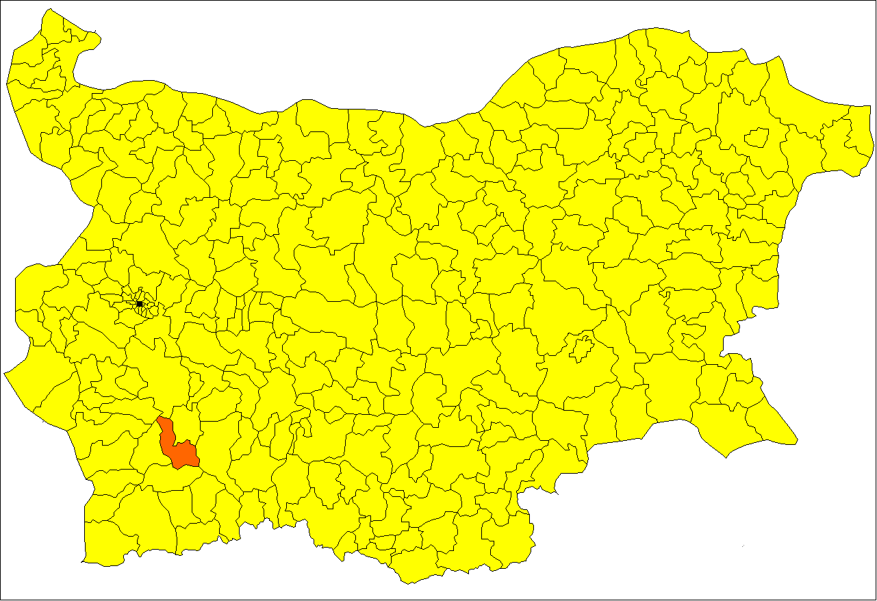 Belitsa Municipality.